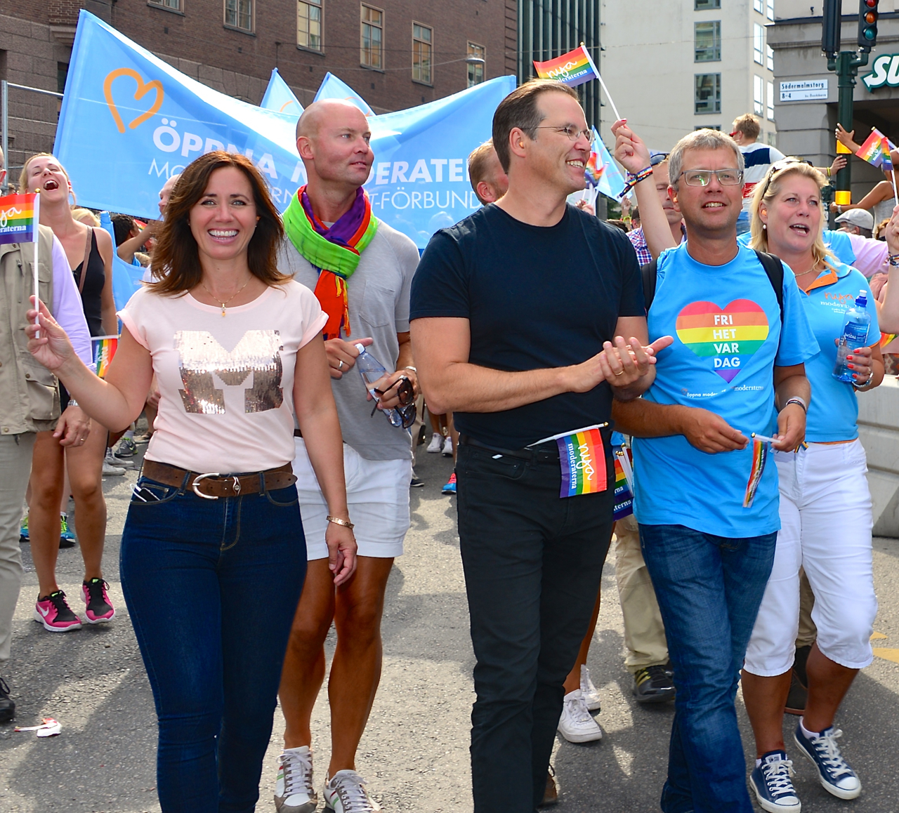 The Moderate Party in the final Pride Parade during Stockholm Pride in 2014. From left: Filippa Reinfeldt, Anders Borg, Kent Persson, Catharina Elmsäter-Svärd.